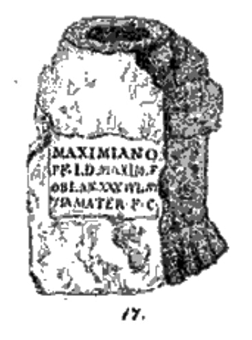 Roman dedication altar, dated 101 AD – 300 AD, founded 1814 in Obing, district Traunstein, Upper Bavaraia, Germany.